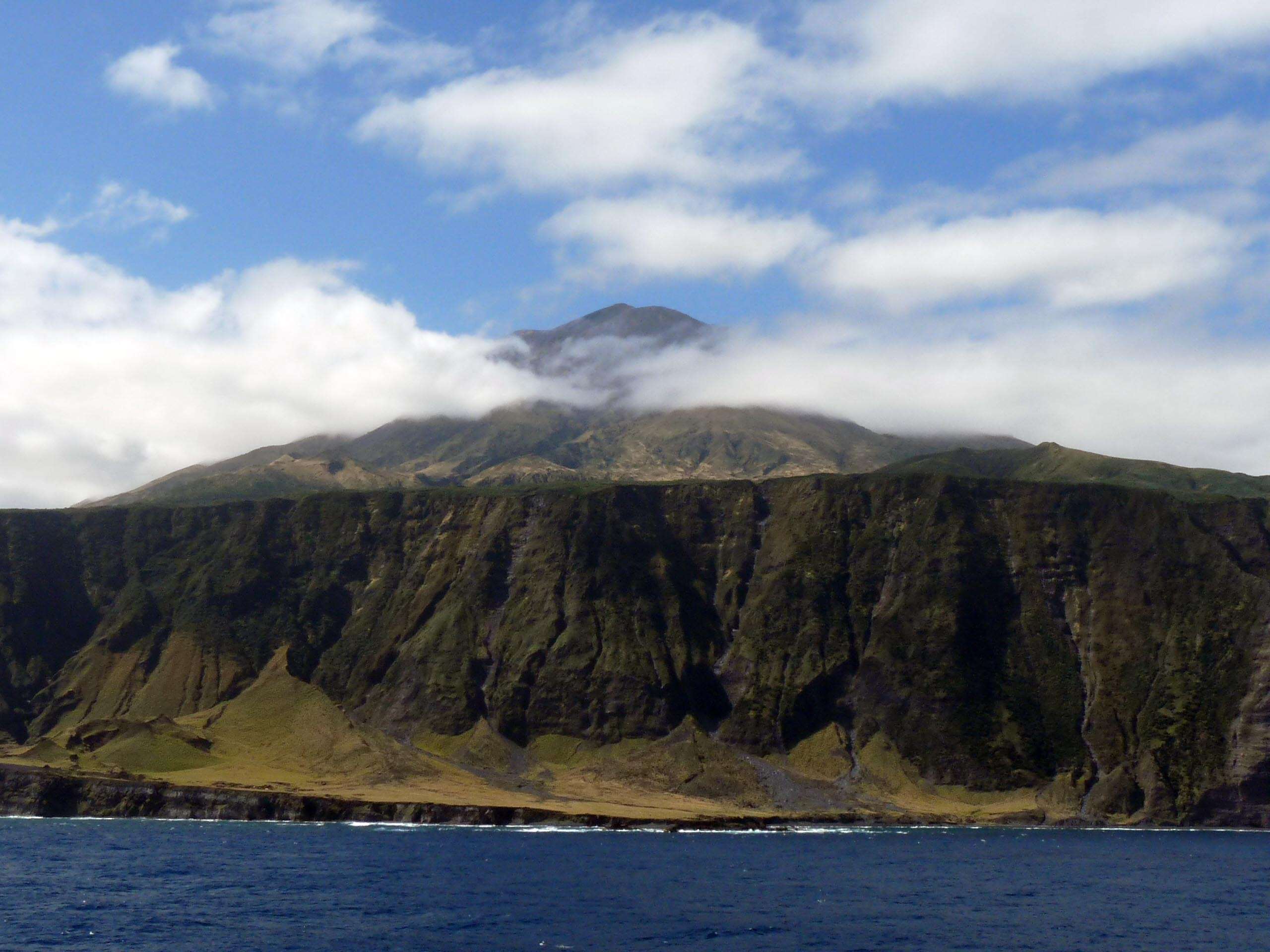 Tristan W coast 45